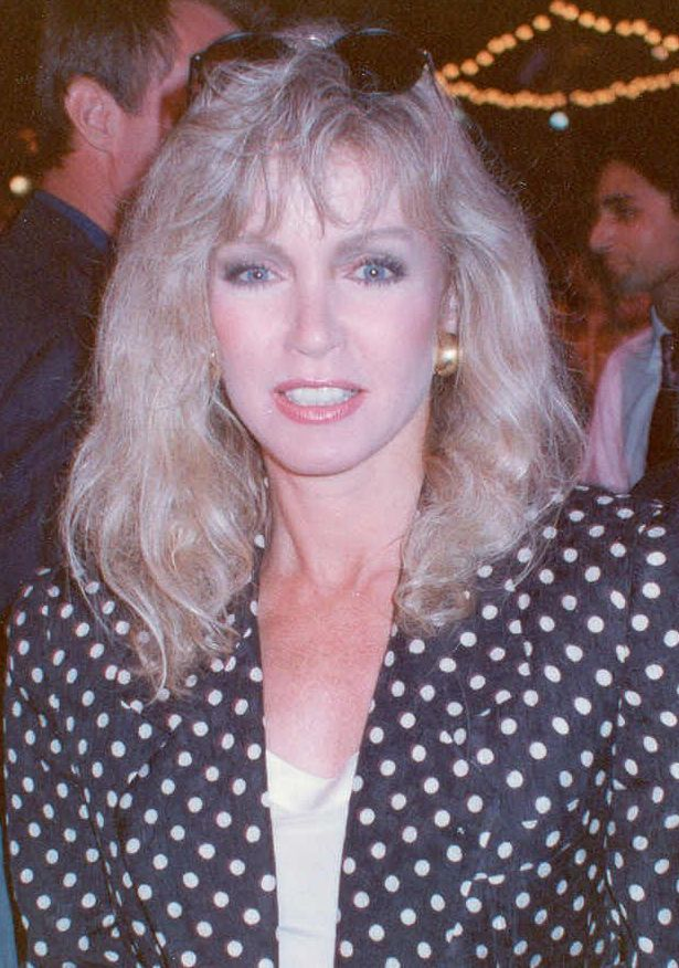 Photo taken at the AIR AMERICA movie premiere 1990